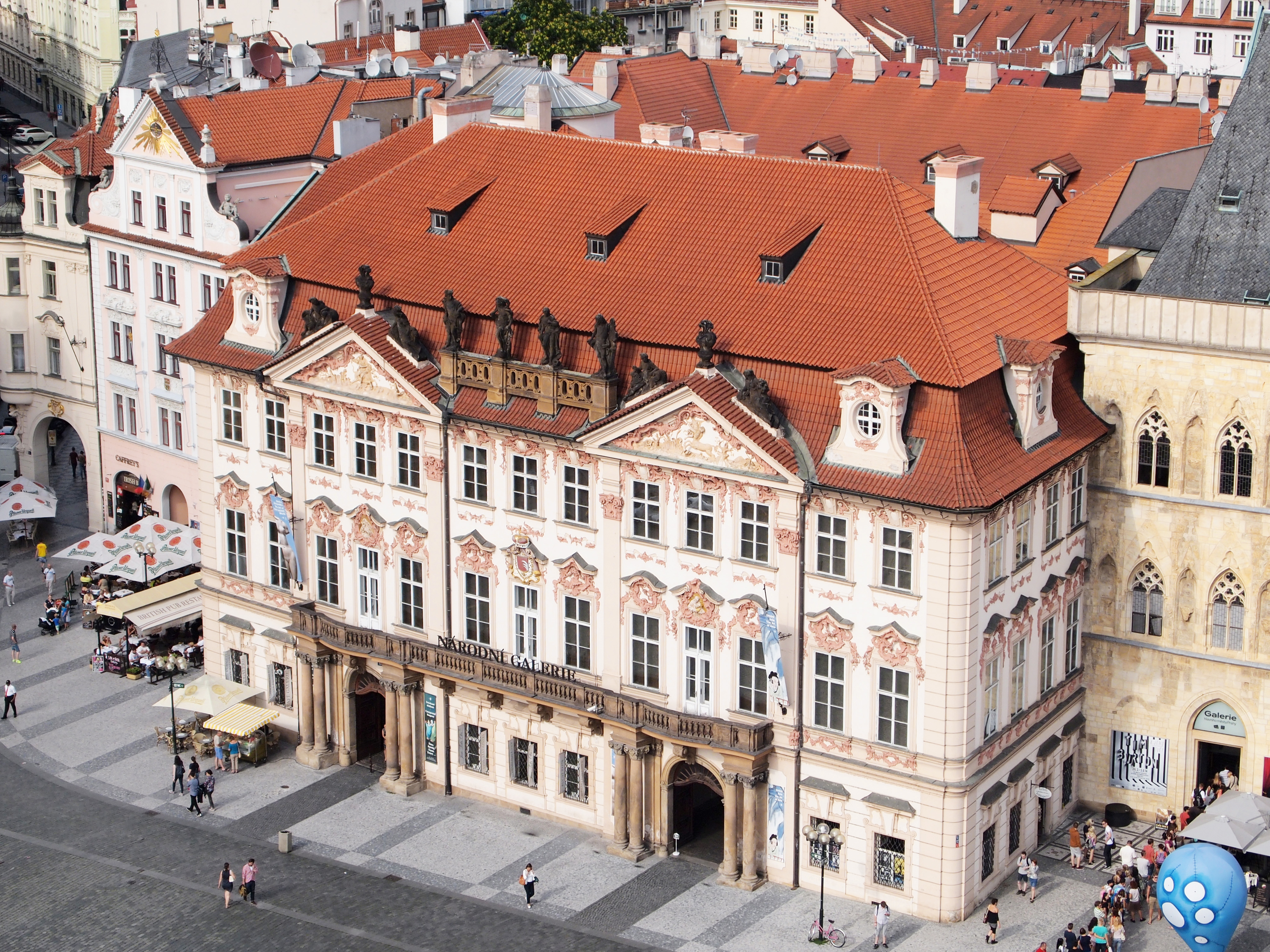 Kinský Palace at the Old Town Square, Prague. This photograph was taken with an Olympus E-PL1